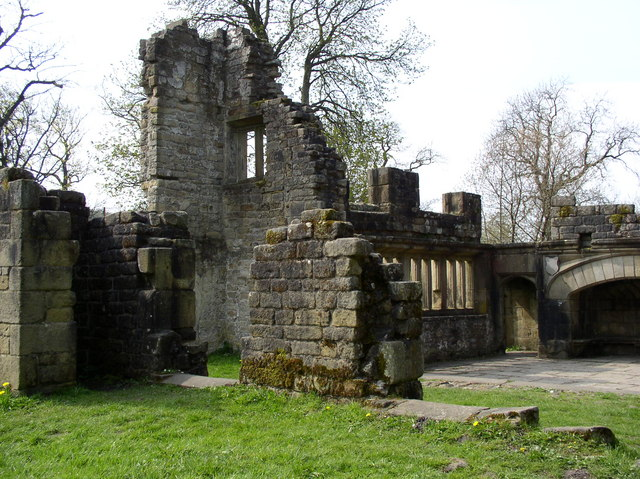 Wycoller Hall Inside the grounds of the hall